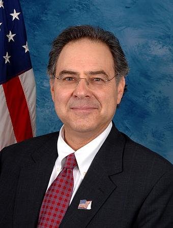 Paul Hodes, member of the United States House of Representatives.